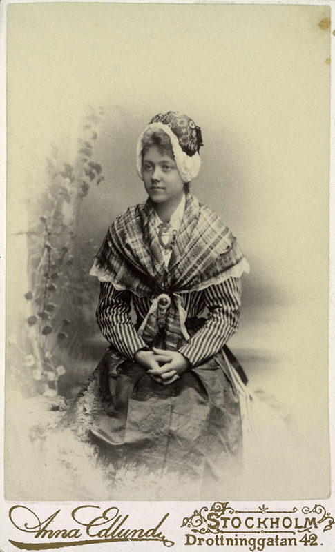 Depicted person: Sigrid Behm